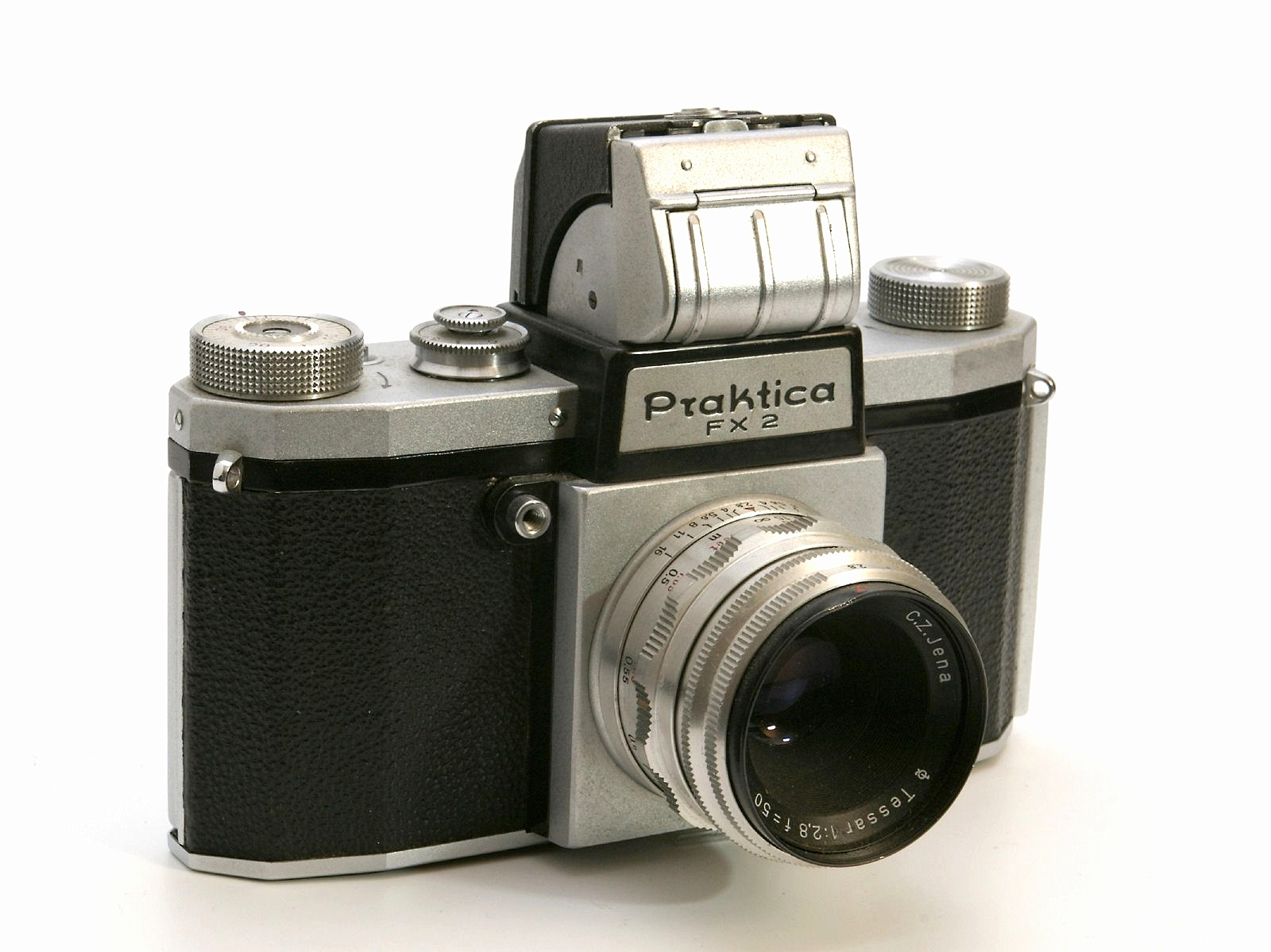 East European 35mm slr